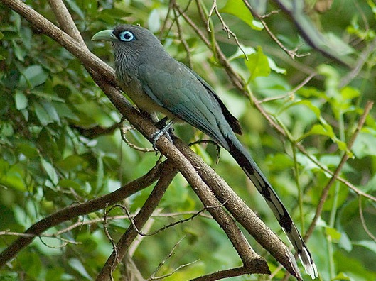 Blue-faced_Malkoha Phaenicophaeus viridirostris, Iyerpadi, Valparai, Tamil Nadu, India